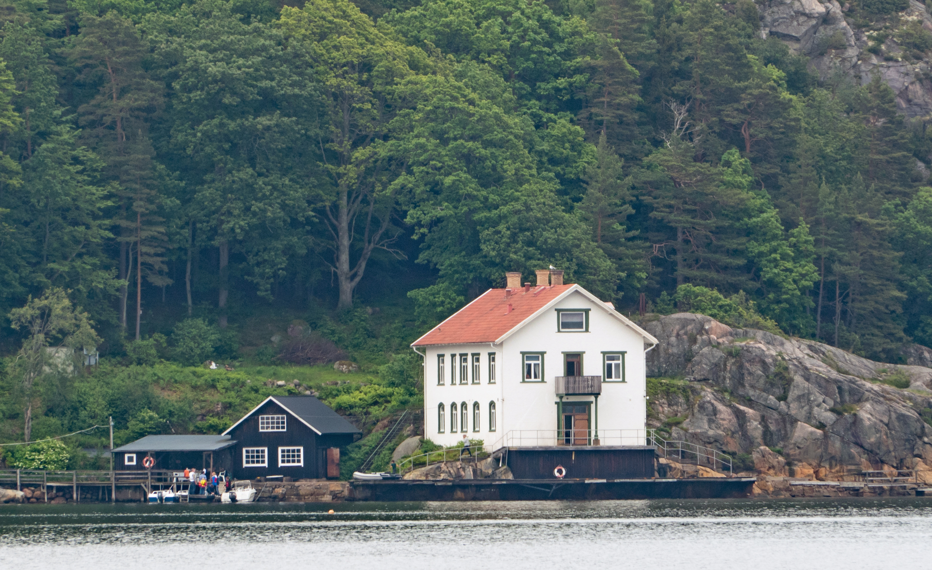 Bornö Marine Research Station on Stora Bornö in Gullmarsfjorden, seen from Holma boat club, Lysekil Municipality, Sweden.